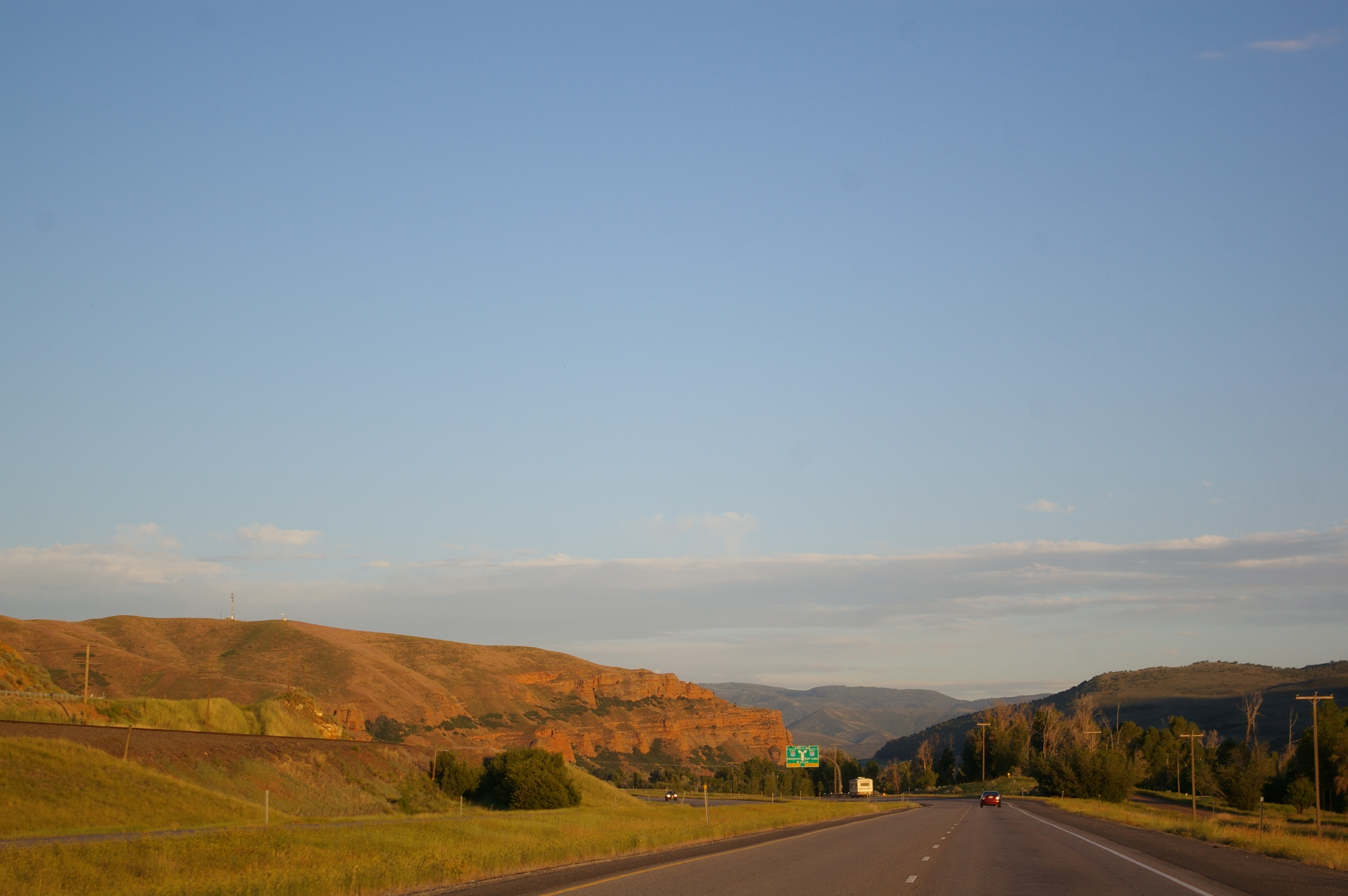 A view of Echo, Utah and Echo Canyon from Interstate 84